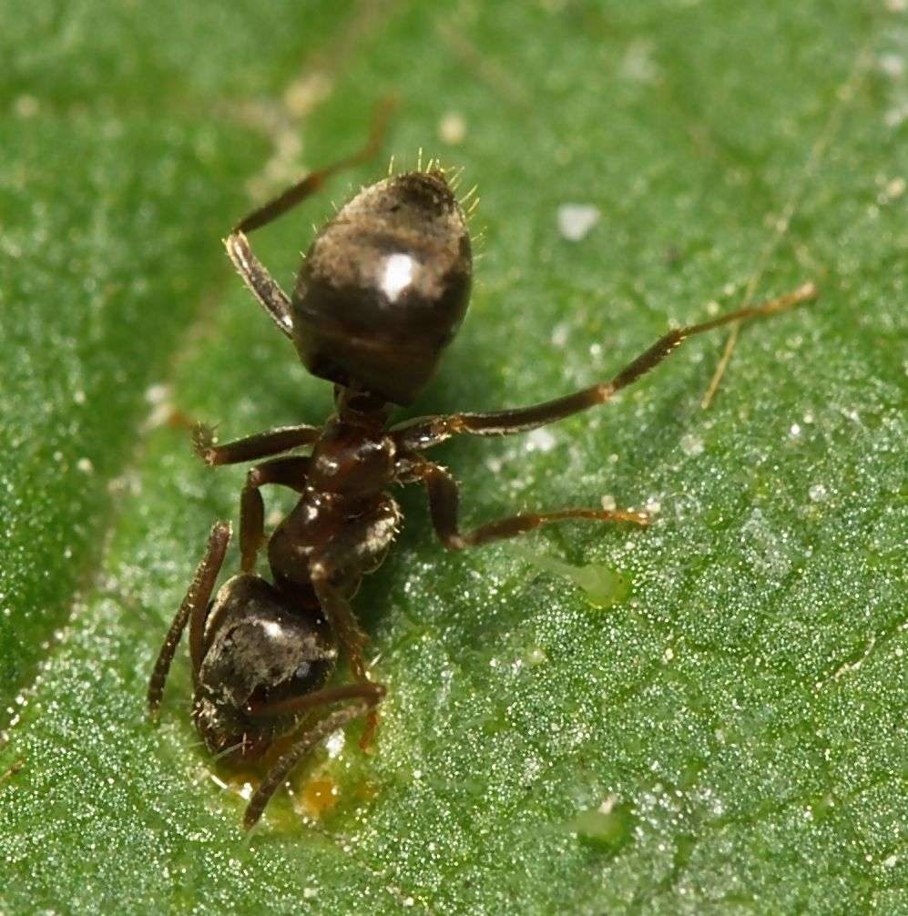 Lasius sp. from Cologne, Germany. Seems to be feeding on something (leaf is Urtica dioica).